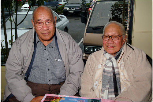 Pastor Samani and wife Sapapali'i Pulepule 43 years as the Leaders of the Samoan Assemblies of God in New Zealand and 2 years as the Leaders of the World Samoan Assemblies of God Fellowship.